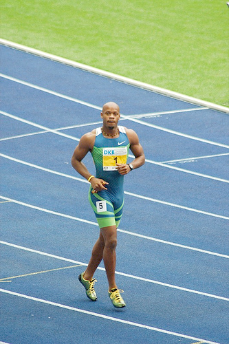 Asafa Powell at the 2006 ISTAF athletics meet